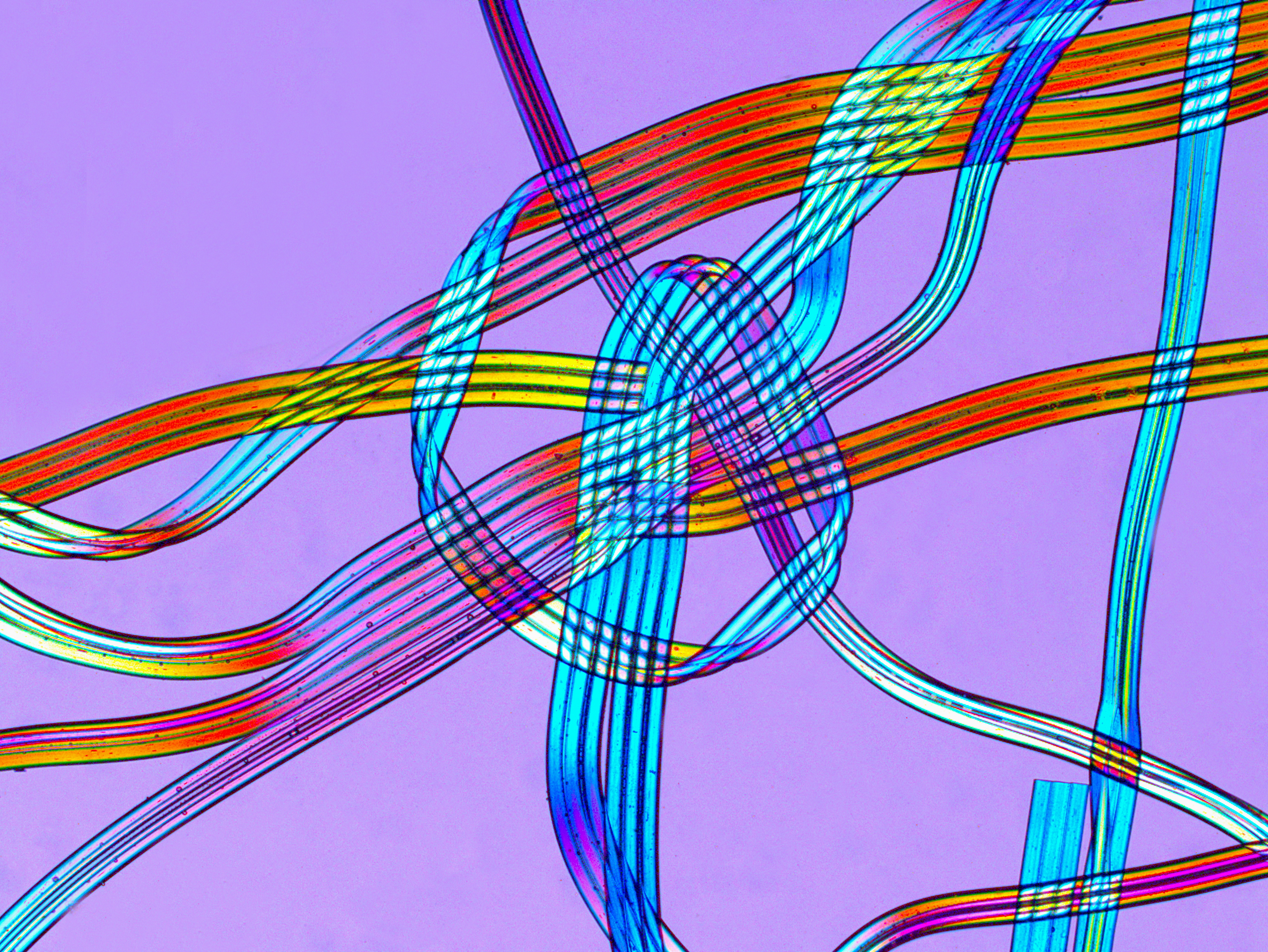 Polyurethane Fibers Optical microscopy Polarized Light Magnification 100x